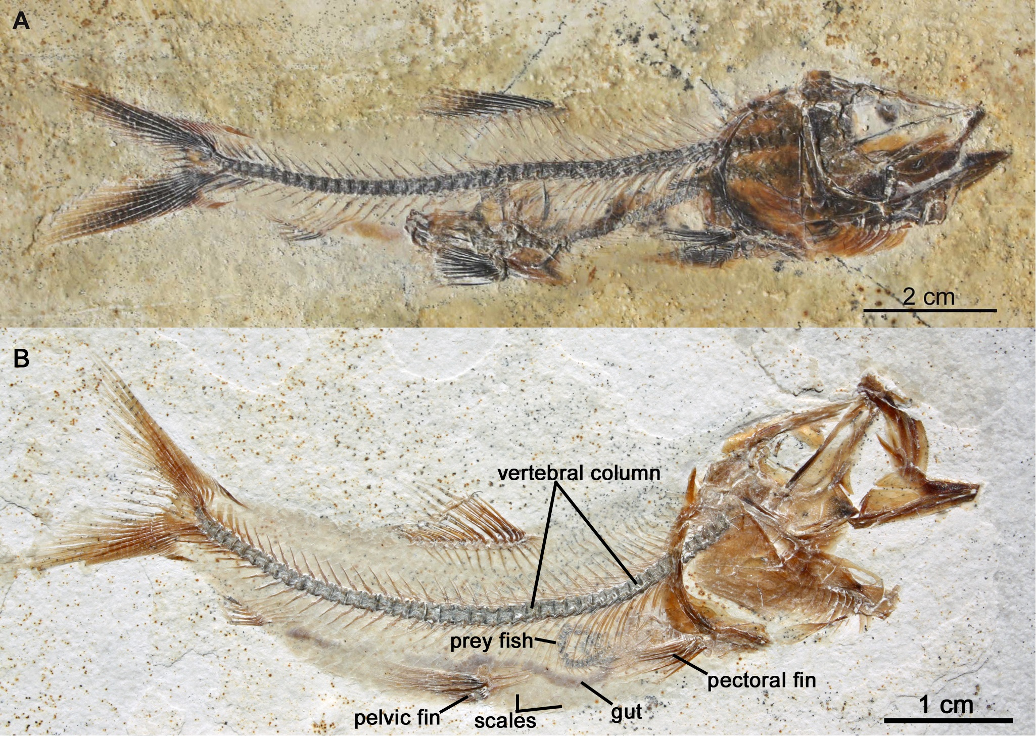 Predation on Orthogonikleithrus hoelli by other Orthogonikleithrus species at Ettling. A, Orthogonikleithrus n. sp. 1 (JME-ETT903), a new species of this genus from Ettling (Plattenkalk II) (Arratia, in progress), with Orthogonikleithrus hoelli as stomach contents; B, Orthogonikleithrus n. sp.1 (JME-ETT9) from Plattenkalk I), with Orthogonikleithrus hoelli as stomach contents.